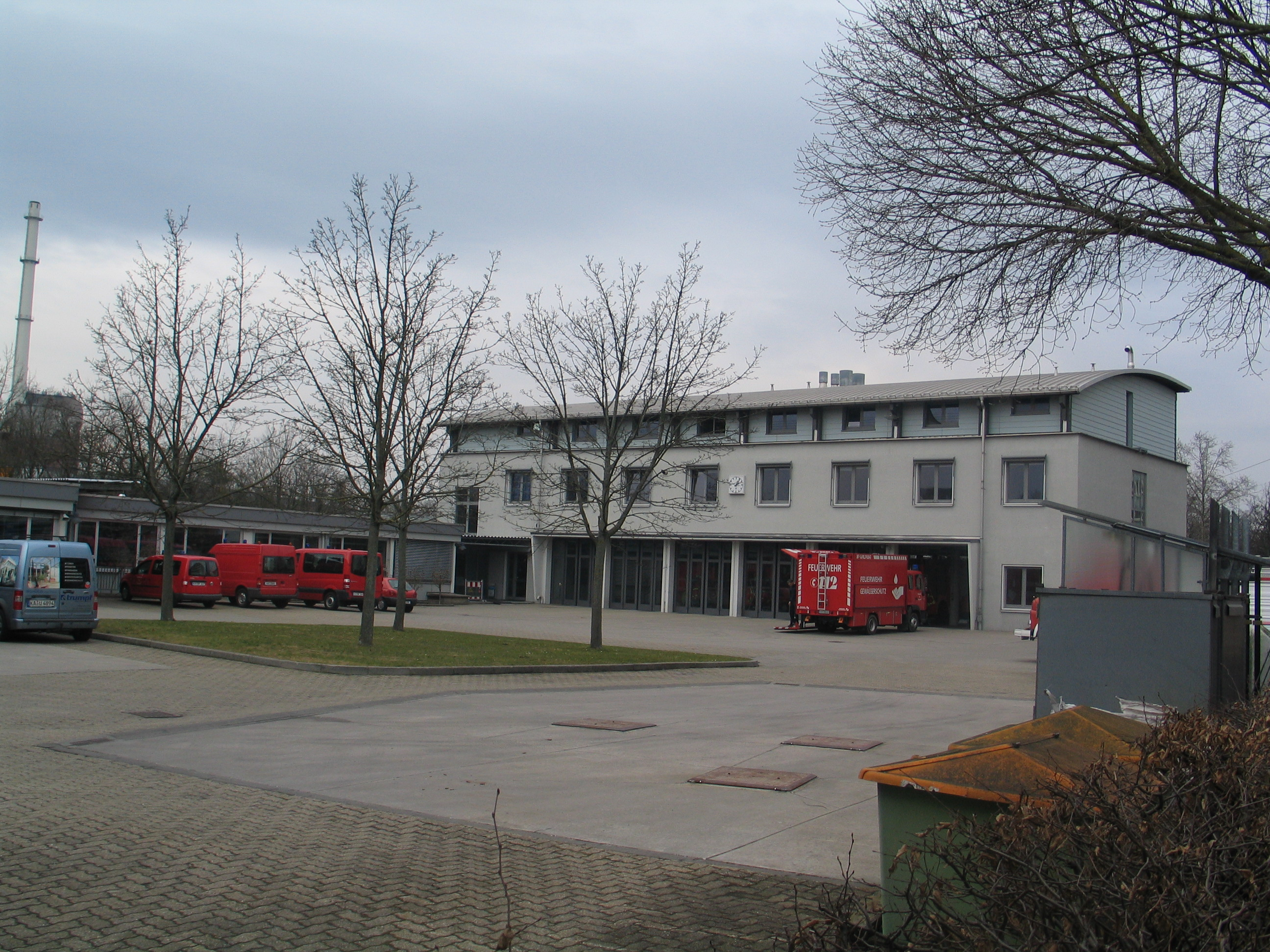 Western fire station in Karlsruhe